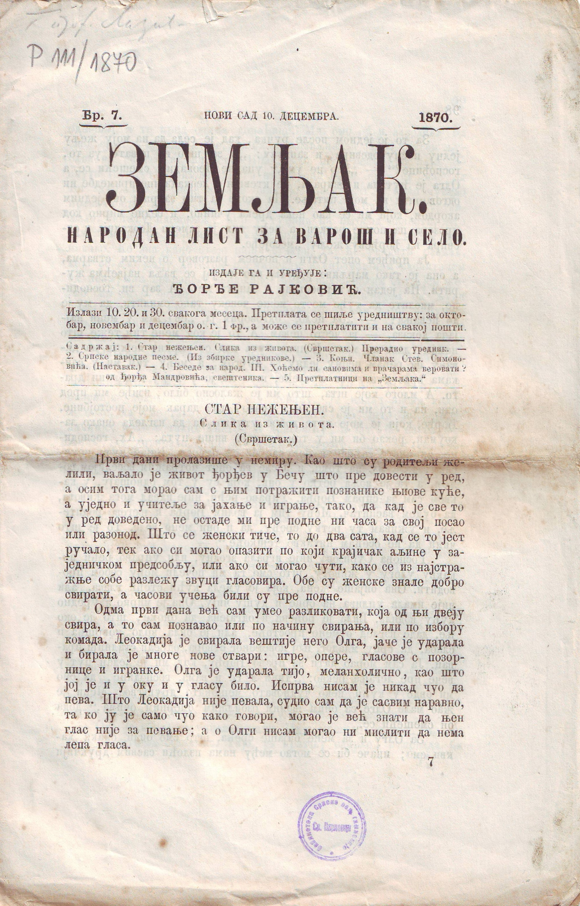 Cover of the magazine for town and village Zemljak (1870). Srpski (latinica): Naslovna strana časopisa za varoš i selo Zemljak (1870).